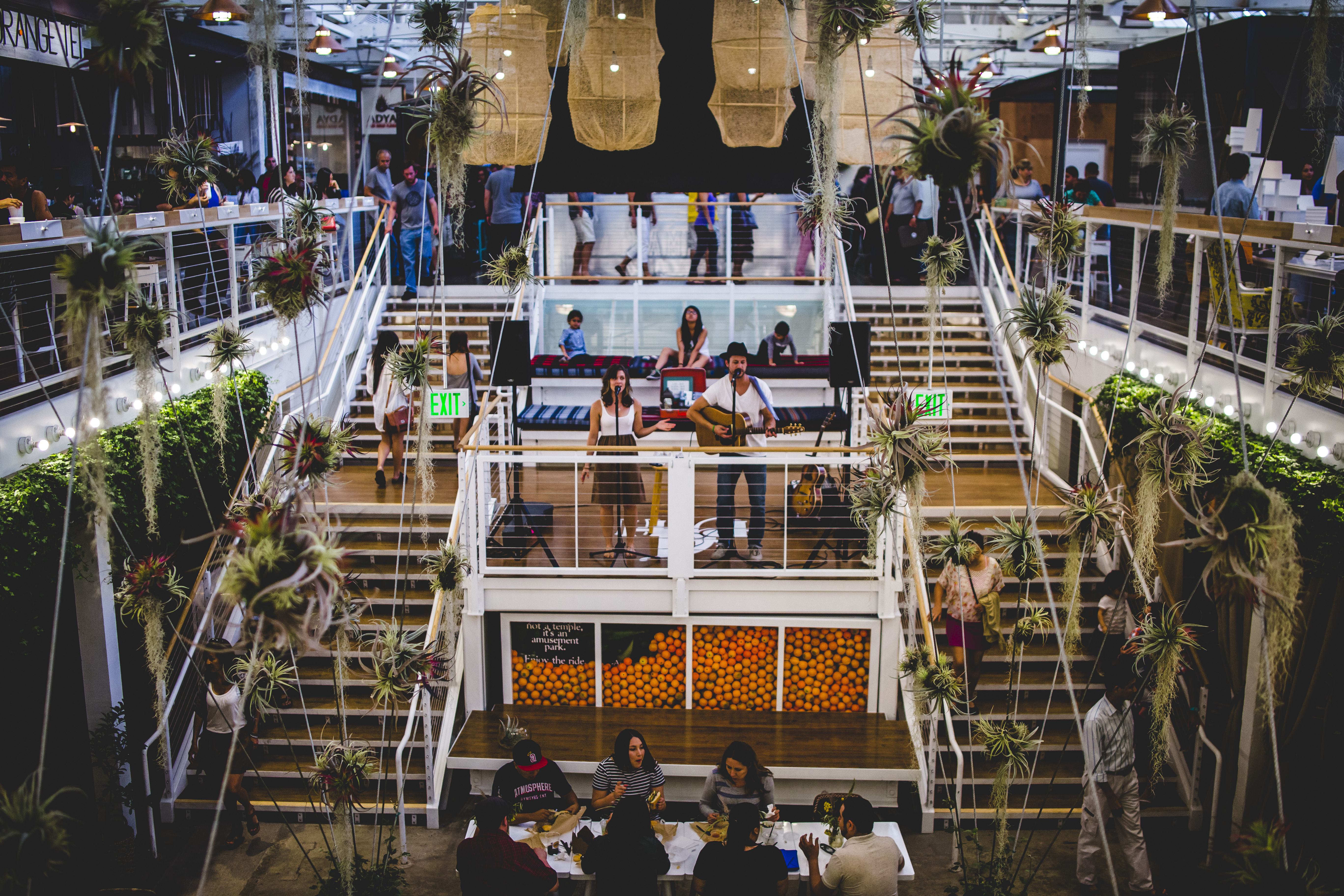 Interior of the Anaheim Packing House in 2014.